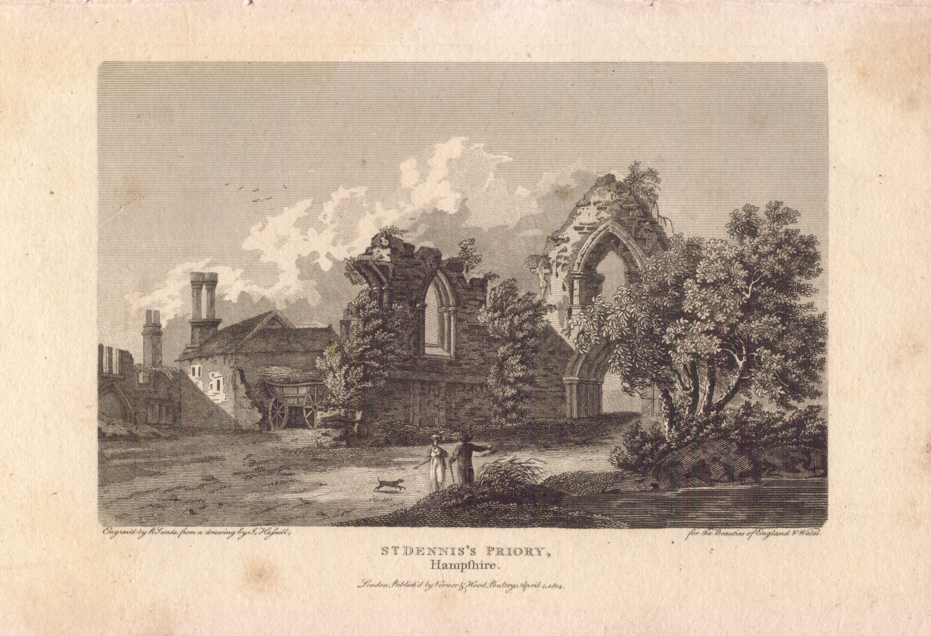 View into the nave of the priory church from approximately the site of the choir in 1804. To the left of the church are the monastic buildings, some of which are apparently in use for farming (note the hay cart). A lady and gentleman plus their dog explore the ruins.